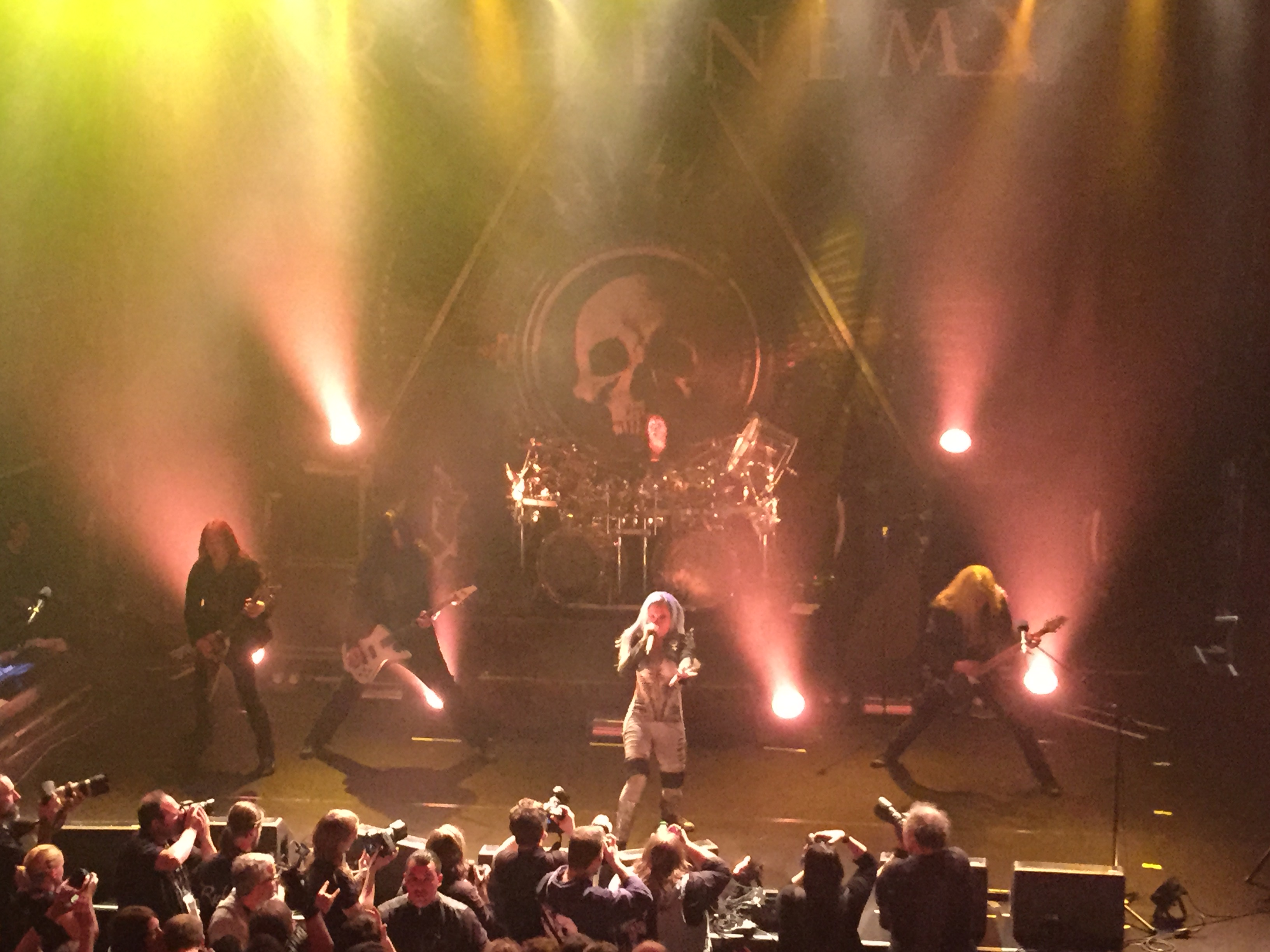 Arch Enemy